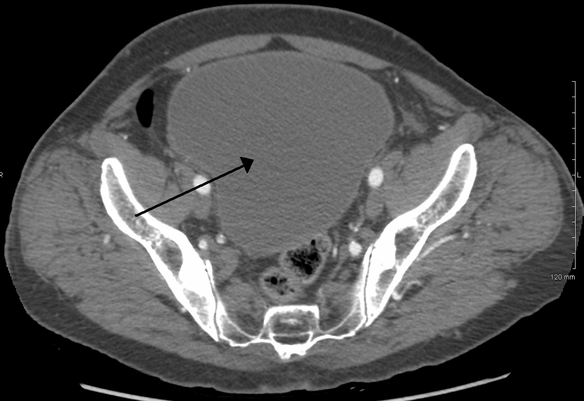 Urinary obstruction as seen on CT